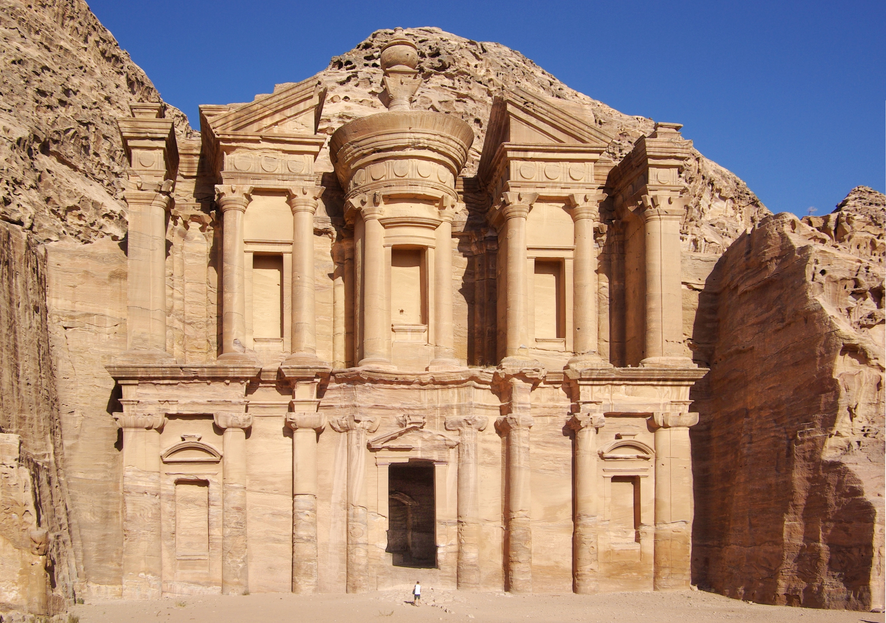 Petra, Ad Deir